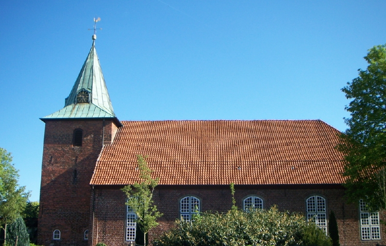 Marienkirche in Weyhe, Lower Saxony, Germany